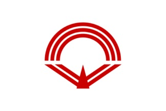 Flag of Miki, Kagawa